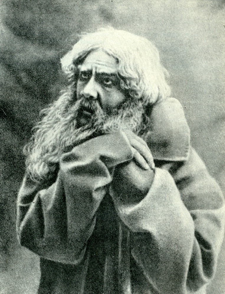 Russian bass, Feodor Chaliapin (1873 - 1938)